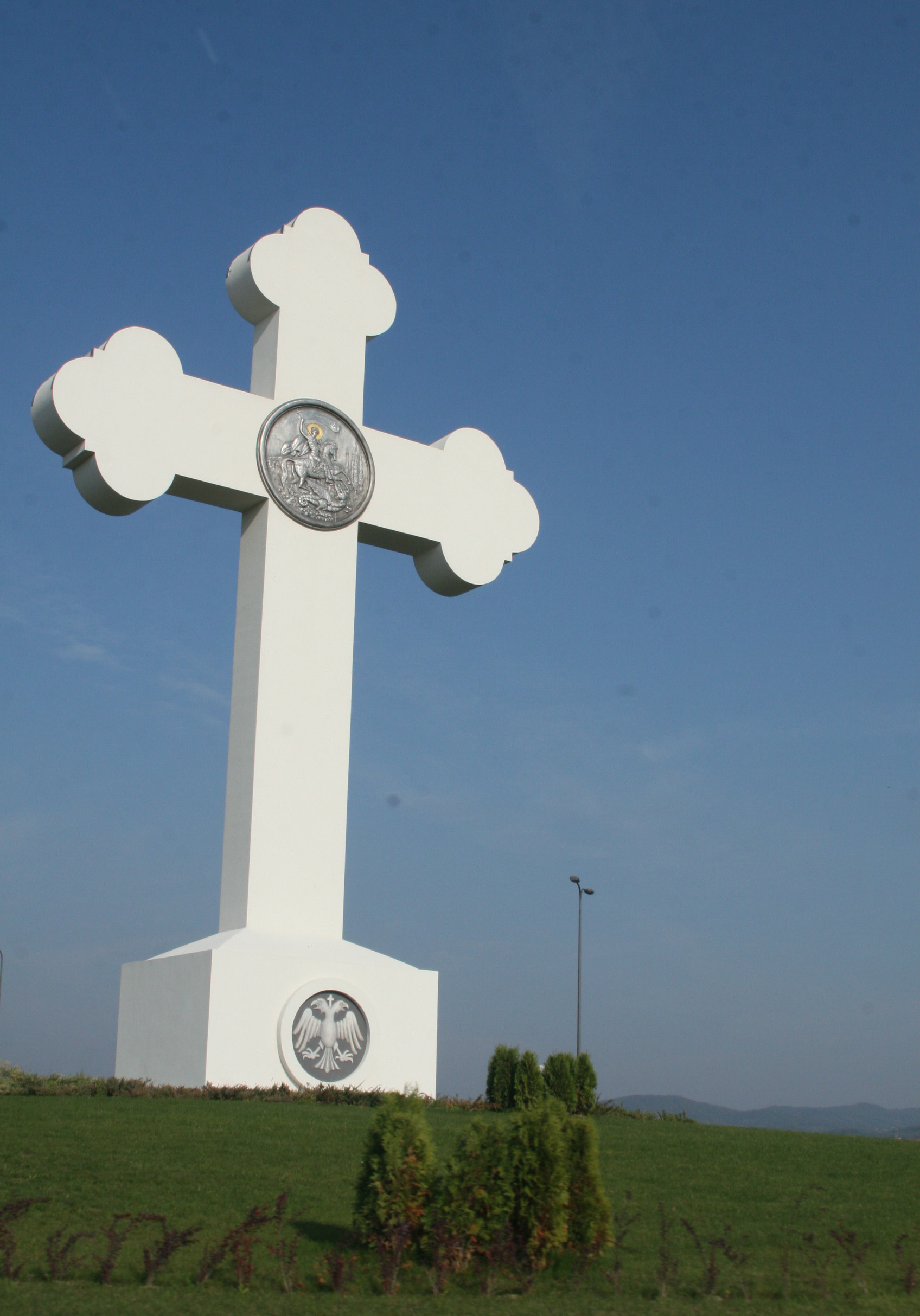 The giant cross at the entrance to the town of Kragujevac, in central Serbia.